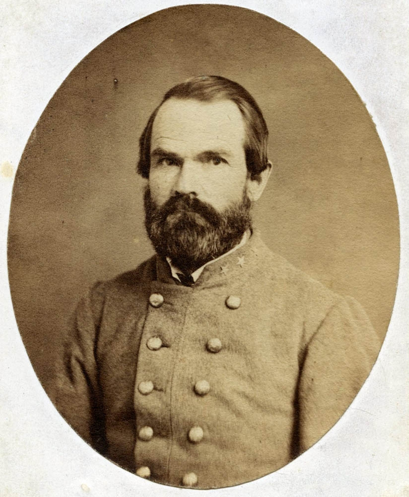 Col. James McCown, 5th Missouri Infantry, C.S.A., Wilson’s Creek National Battlefield, NPS WICR 31479